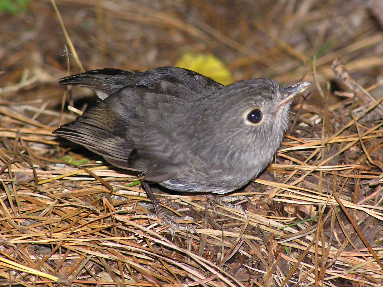 Juvenile New Zealand North Island Robin begging from its parent. This bird is the off-spring of birds released in the Karori Wildlife Sanctuary, and was photographed in an area adjacent to the sanctuary. Māori: Toutouwai